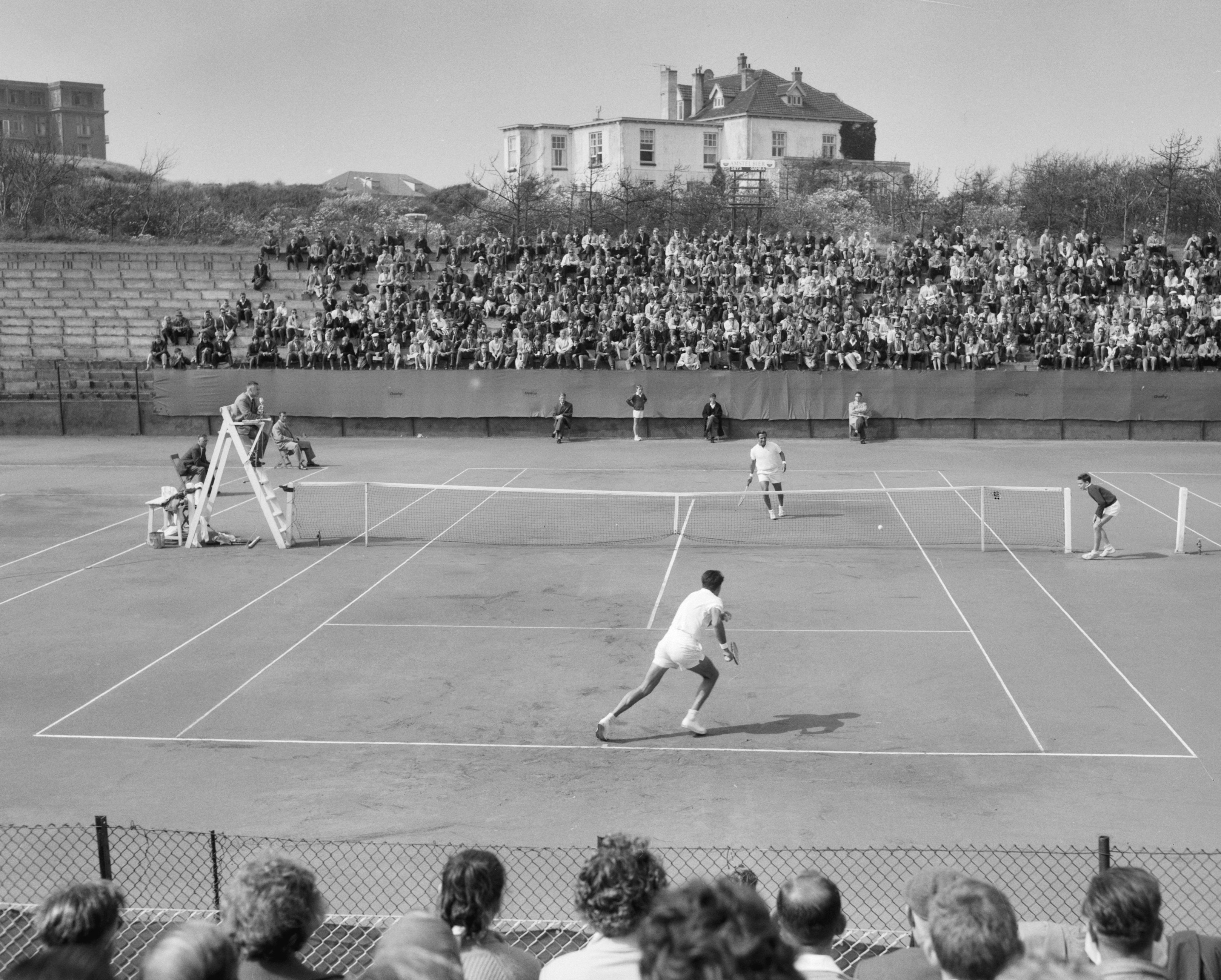 Tennis players Pancho Gonzales (front) and Pancho Segura at the Dutch Professional Championships in Noordwijk.